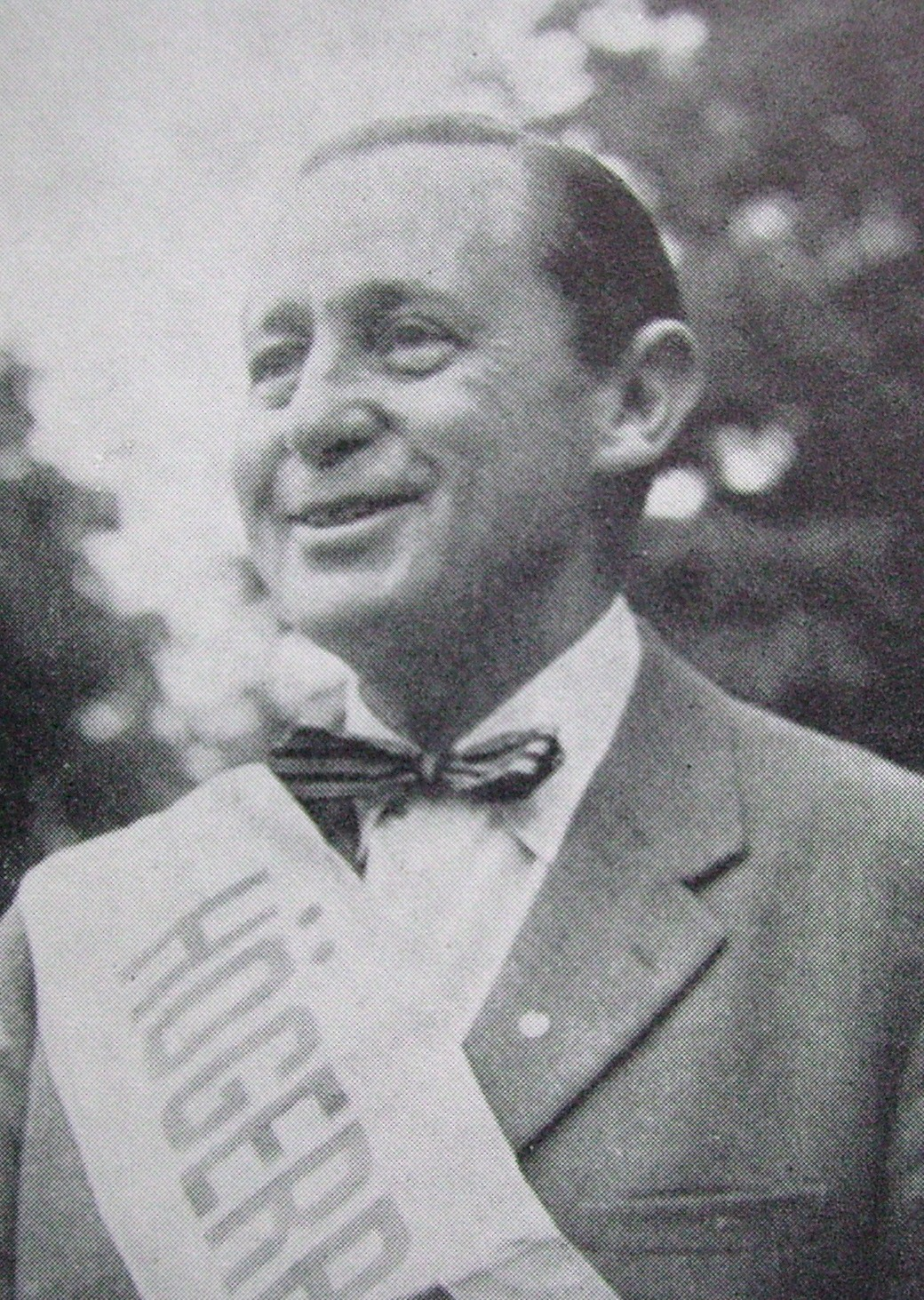 Picture of Jarl Hjalmarson, Swedish politician